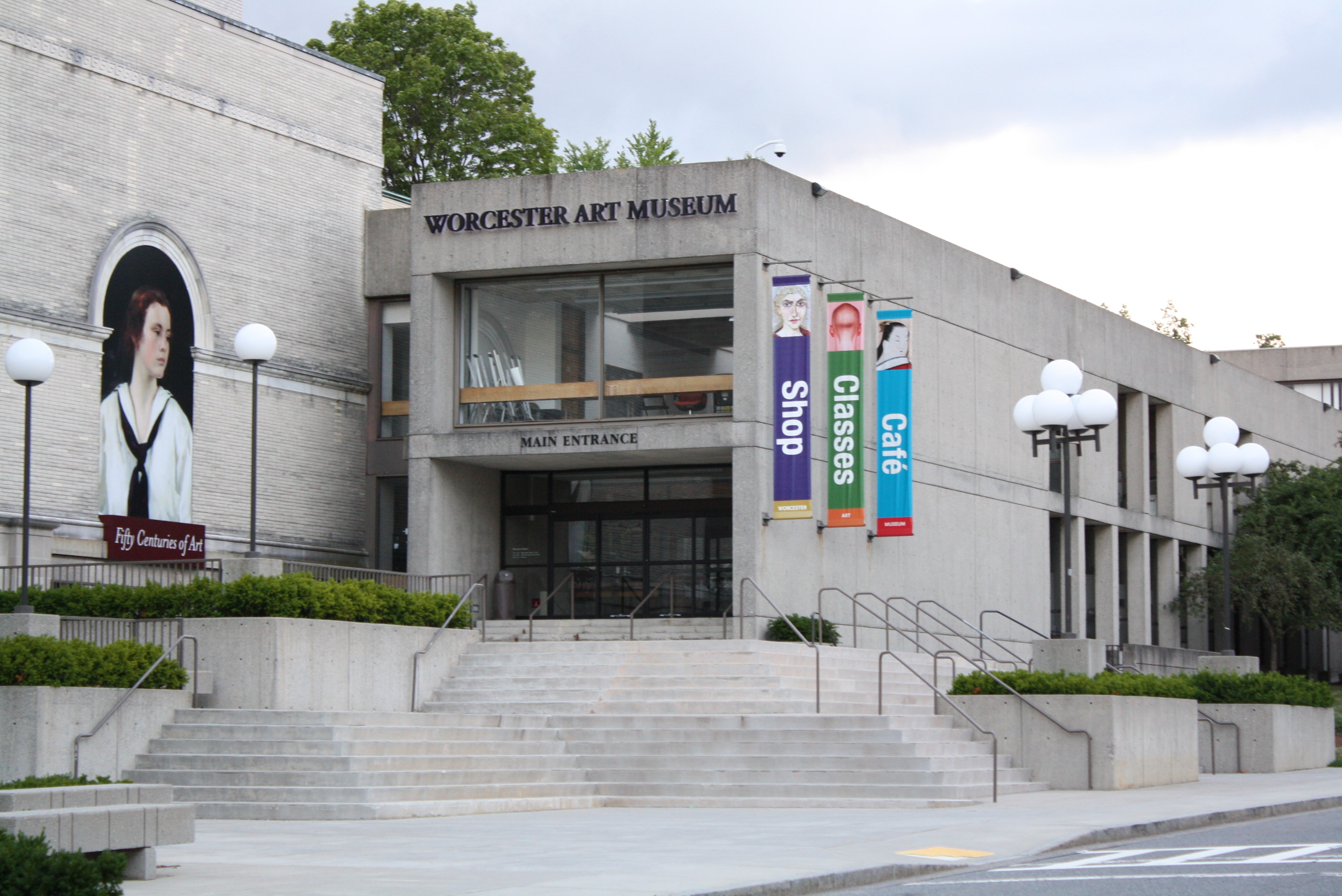 Worcester, MA, USA